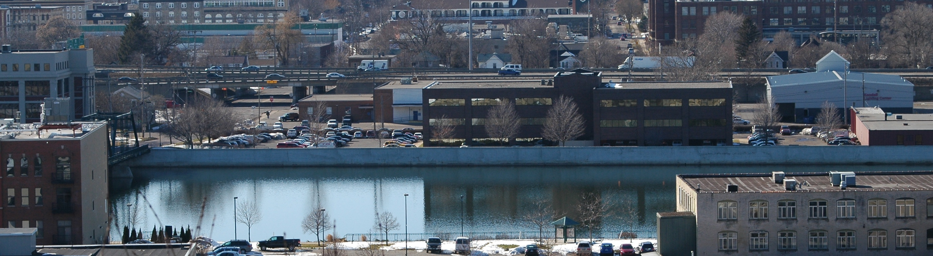 Interstate 296/U.S. Route 131 as seen across the Grand River in Grand Rapids, Michigan